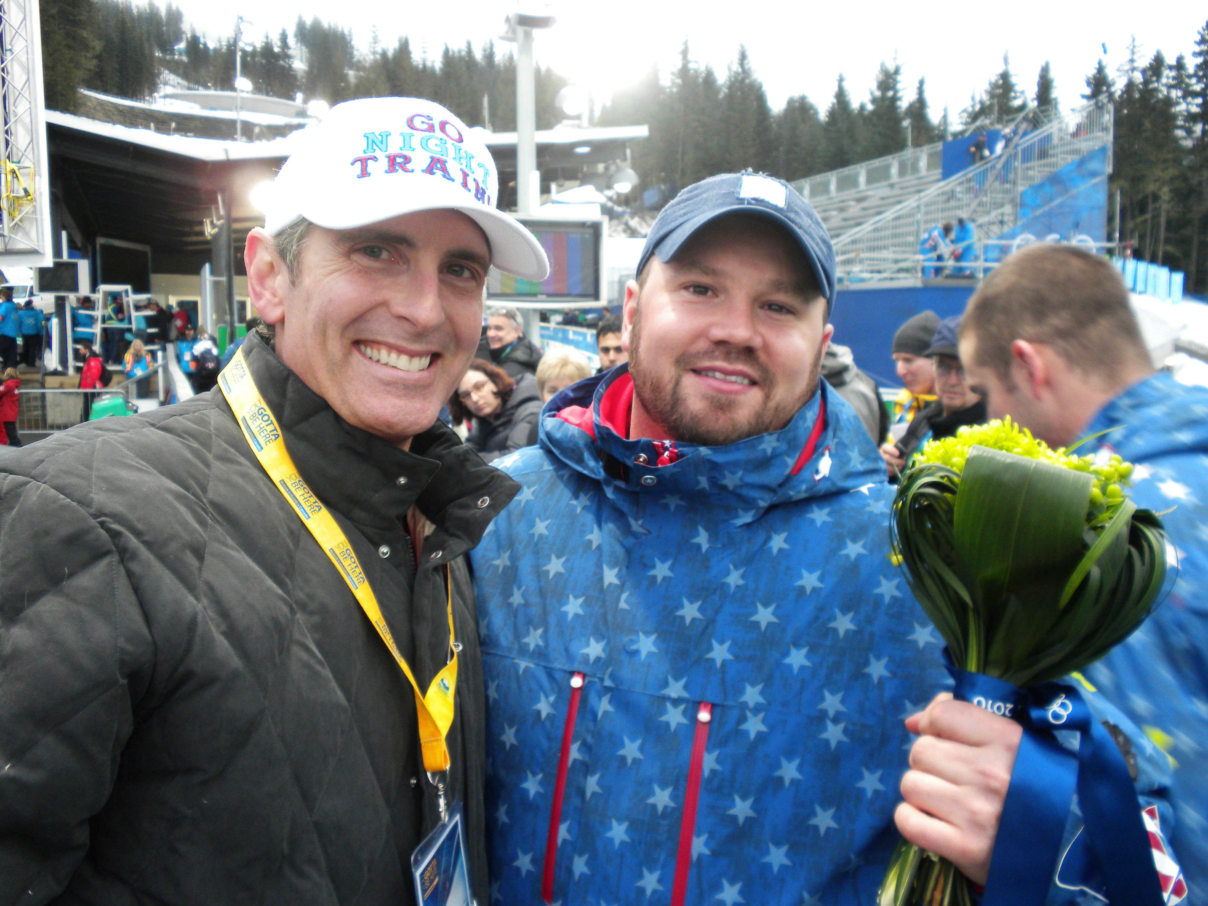 Dr. Brian S. Boxer Wachler was at the finish line when Steven Holcomb won historic Olympic Gold as driver of the US Men's 4-man Bobsled at the 2010 Winter Games in Vancouver.